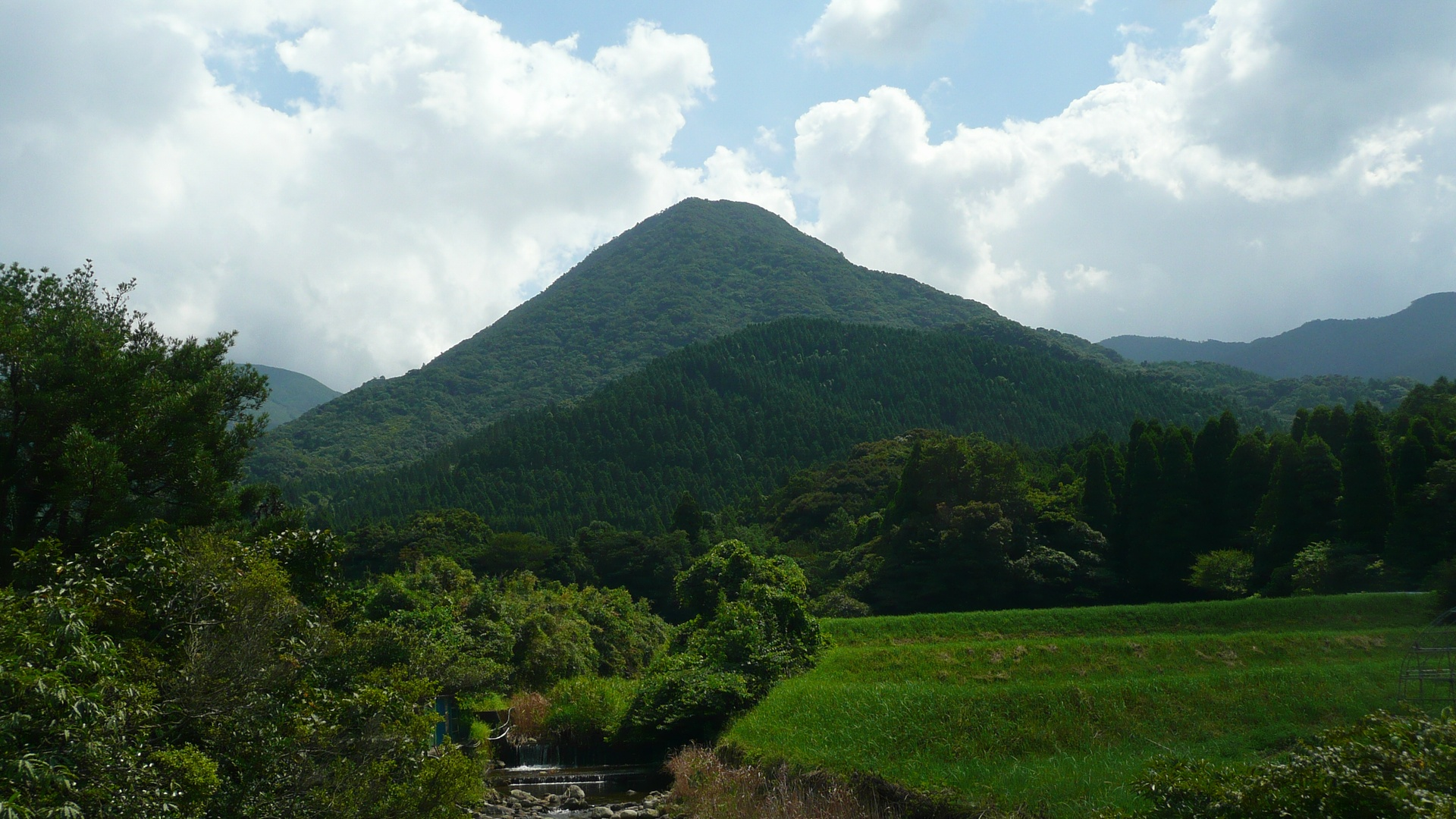 Nakadake - Aira Fuji (Aira, Kanoya City, Kagoshima, Japan)